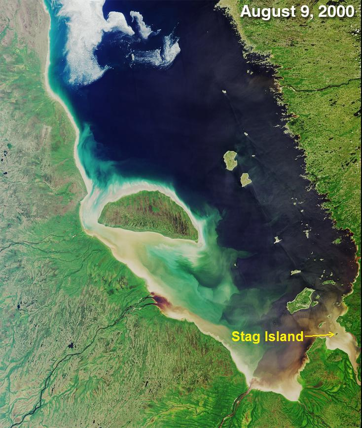 Edited from Mats Halldin's version to show the location of Stag Island, Nunavut.